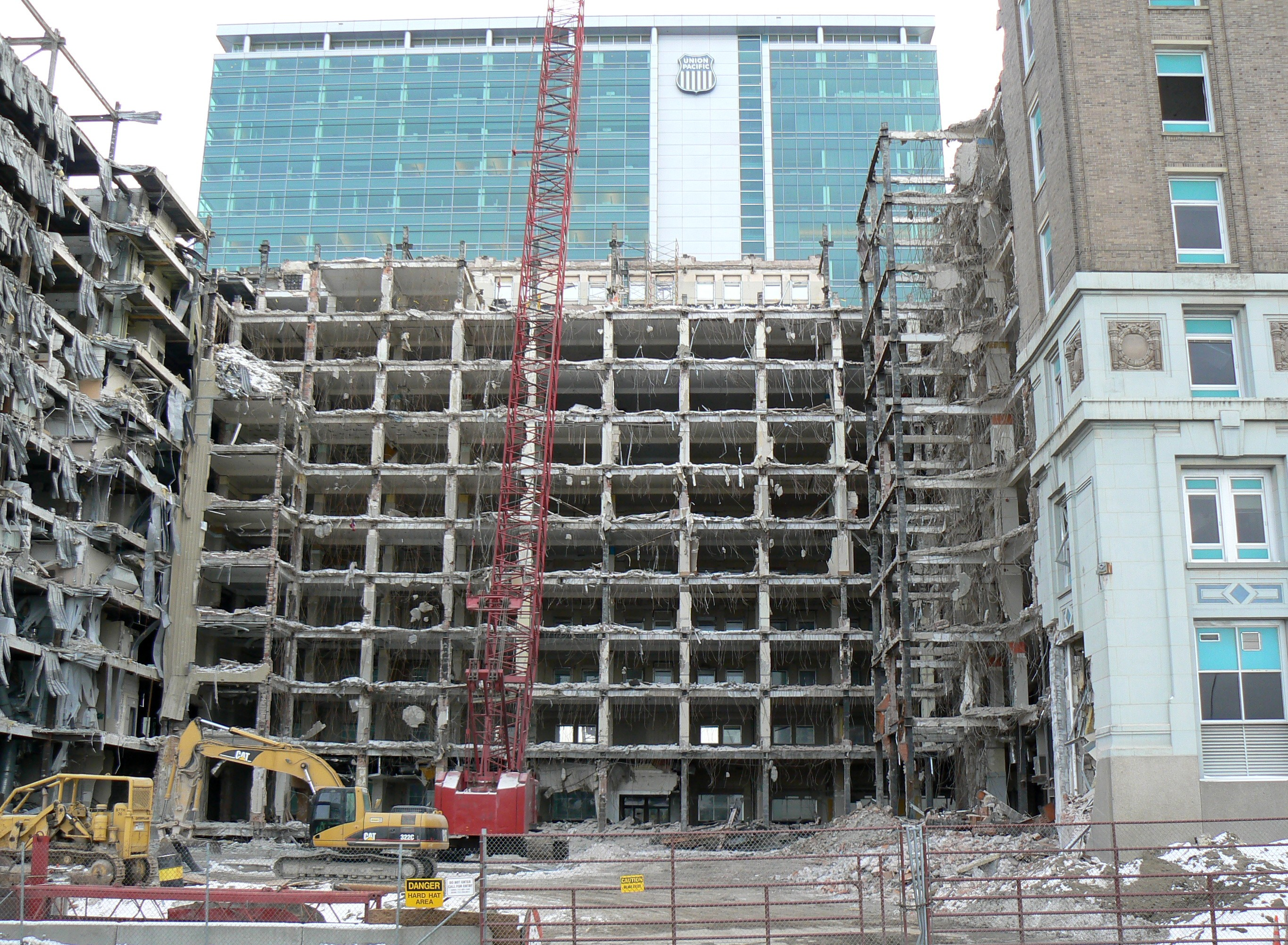 The old Union Pacific building is razed to make way for WallStreet Tower Omaha. The new Union Pacific Center is visible behind and above its old location and is one block south.